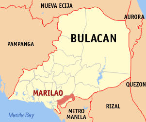 Map of Bulacan showing the location of Marilao